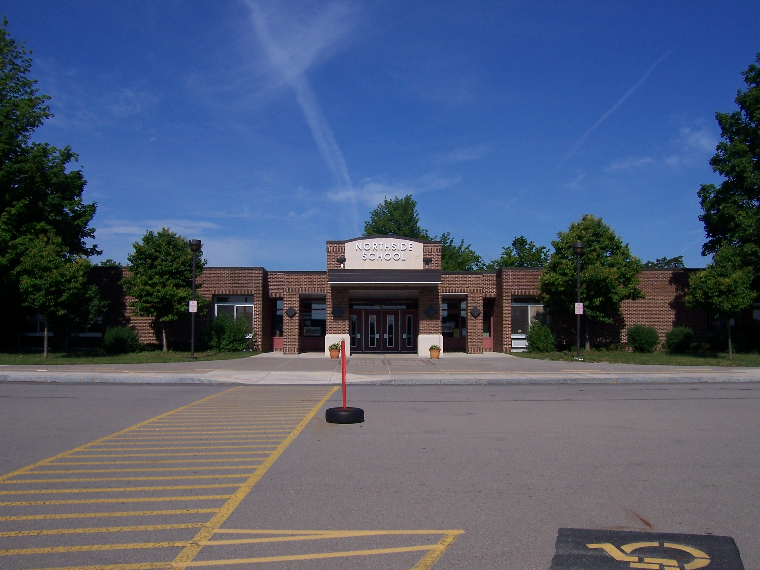 Northside Elementary School in Perinton, New York